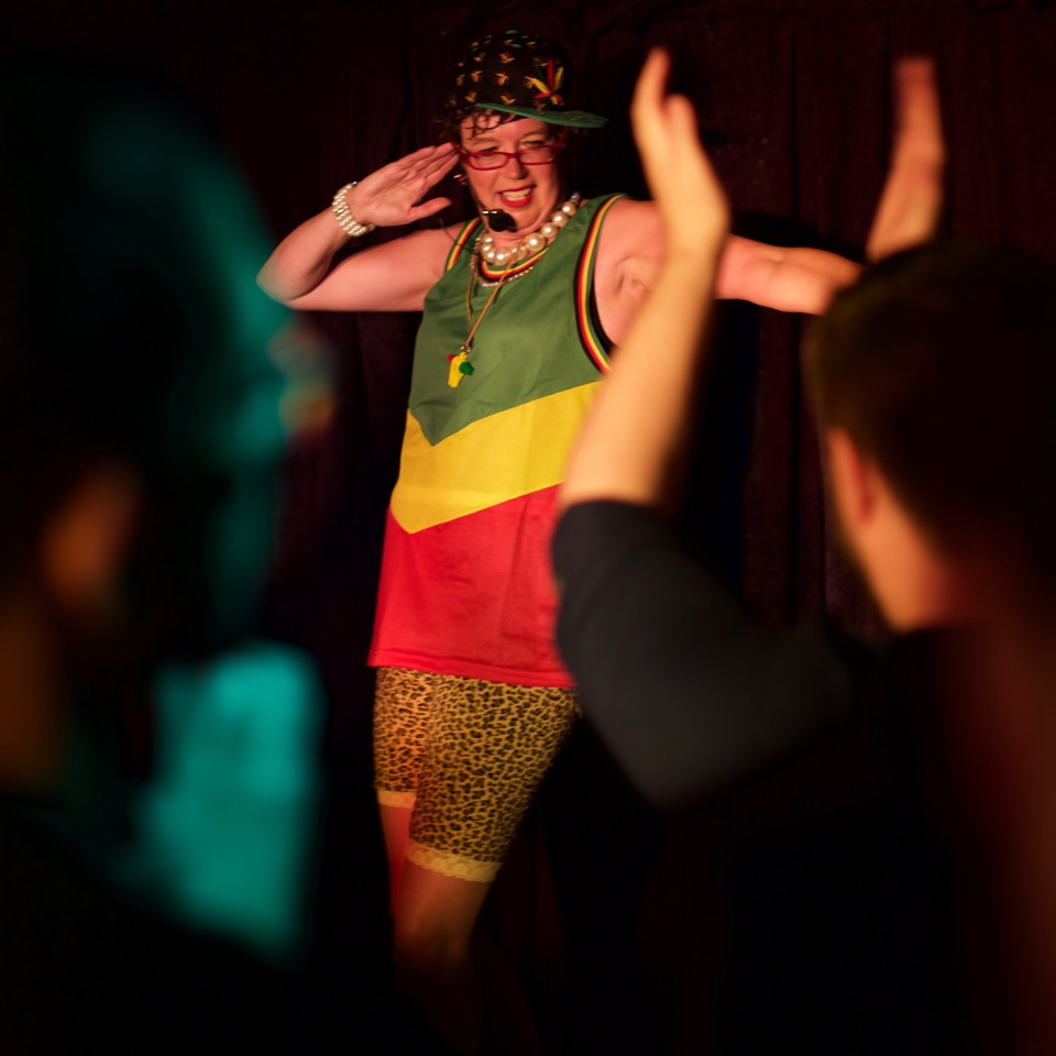 Image of Lorraine Bowen in concert at The Vauxhall Tavern, London.